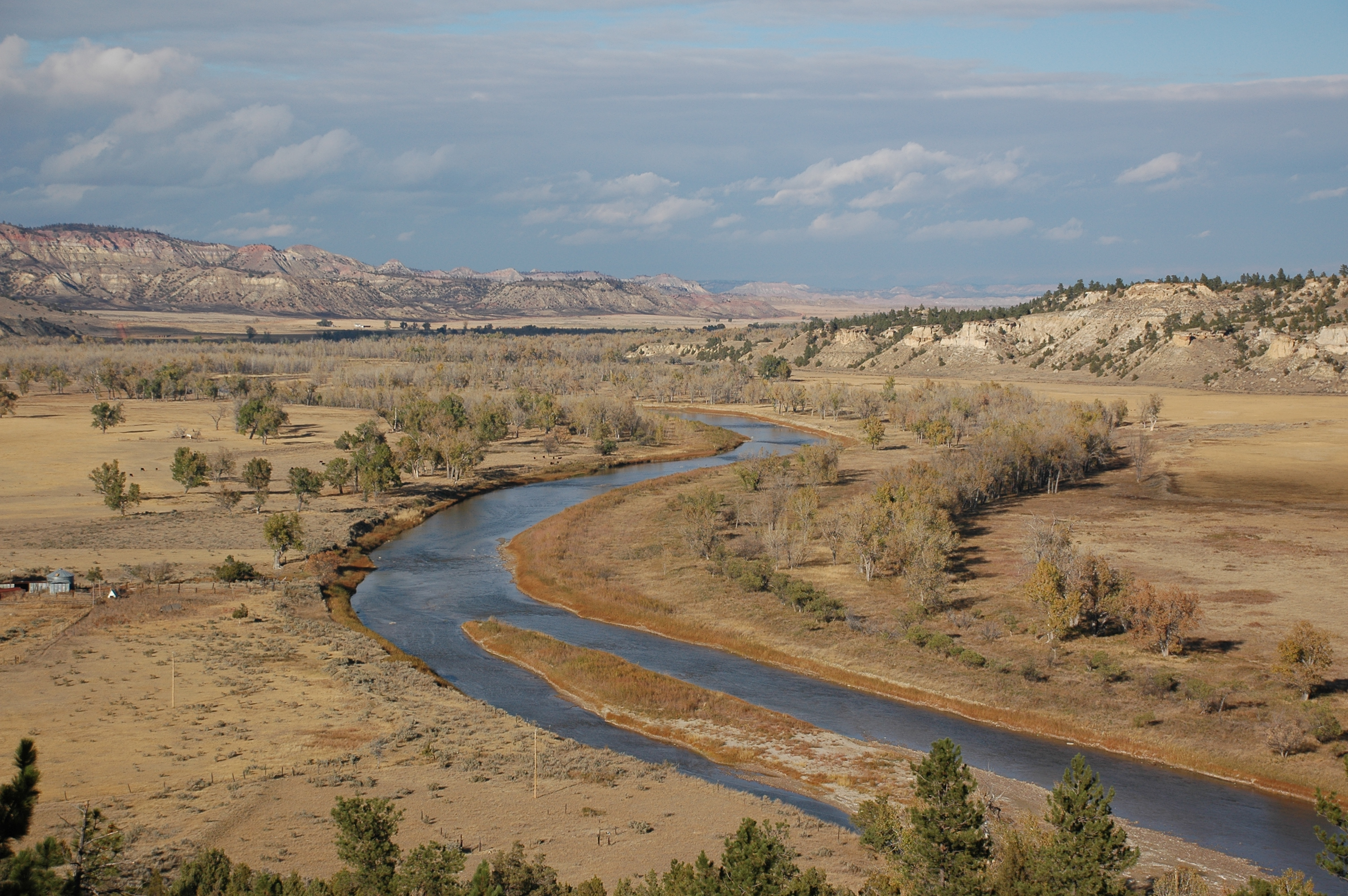 Powder River at about bed-full flow